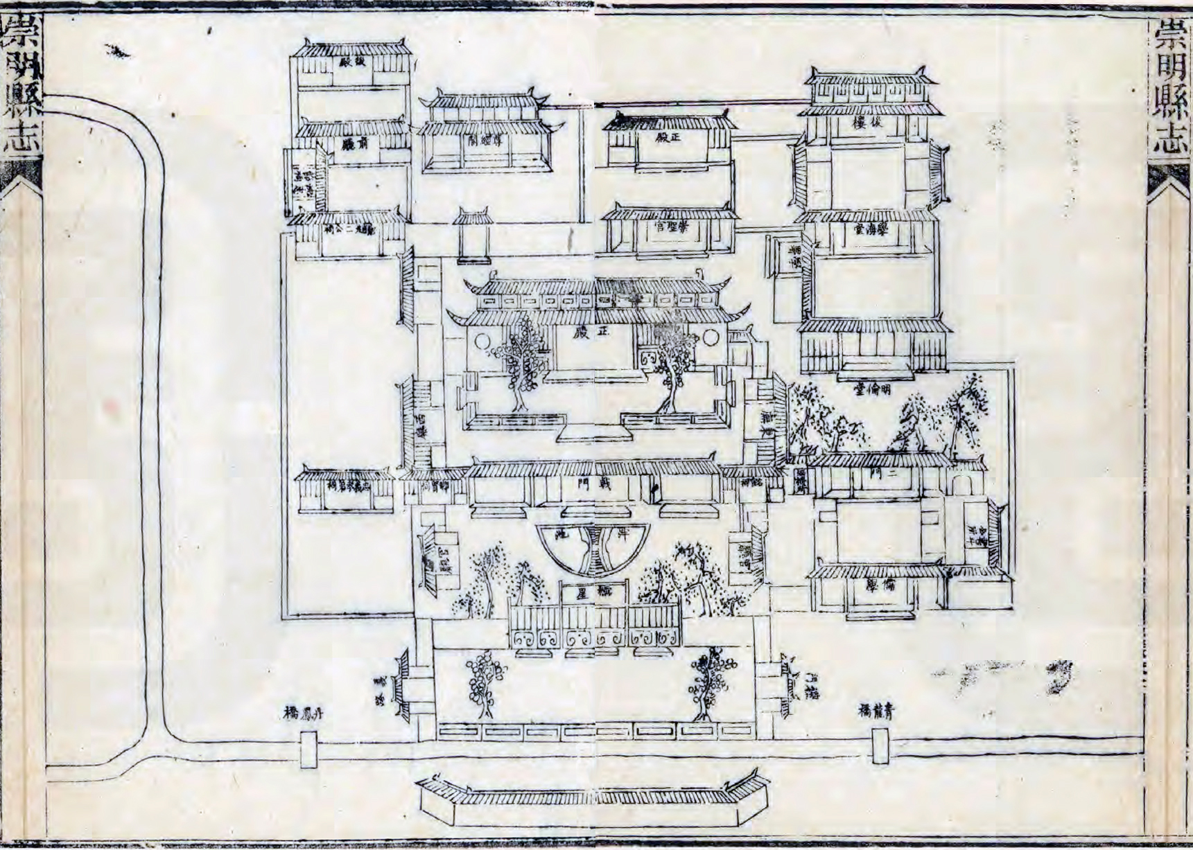 An ancient map of the Chongming Confucian Temple, published in 1881